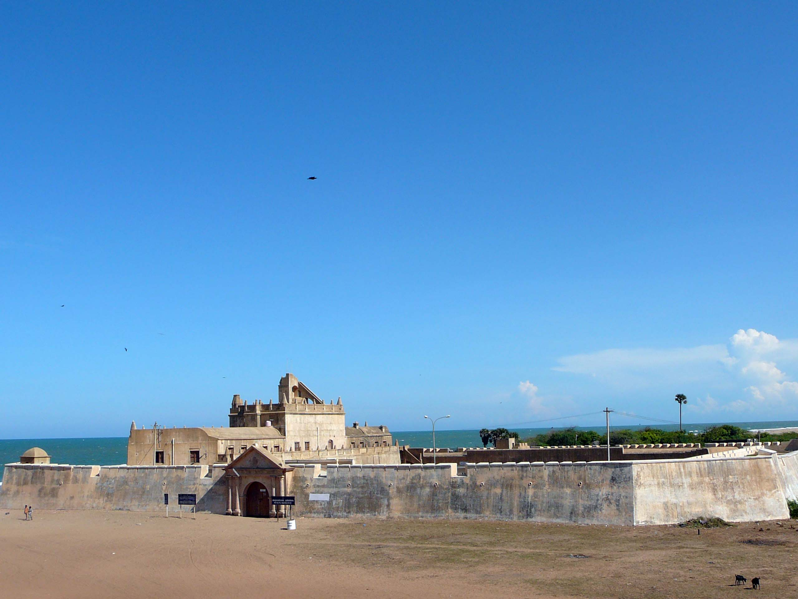 During 1620 AD, Roland Crappe, a danish Navy captain in the name of the danish king bought Tranquebar and the surrounding area from the Tanjore King. Then this fort was built and Tranquebar was made a trading spot. Nearly 384 years after this Fort was built it was partially renovated during 2002 by the ' Tranquebar Association'